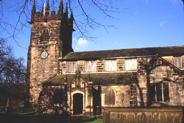 St. Bartholomew's Church, Wilmslow.